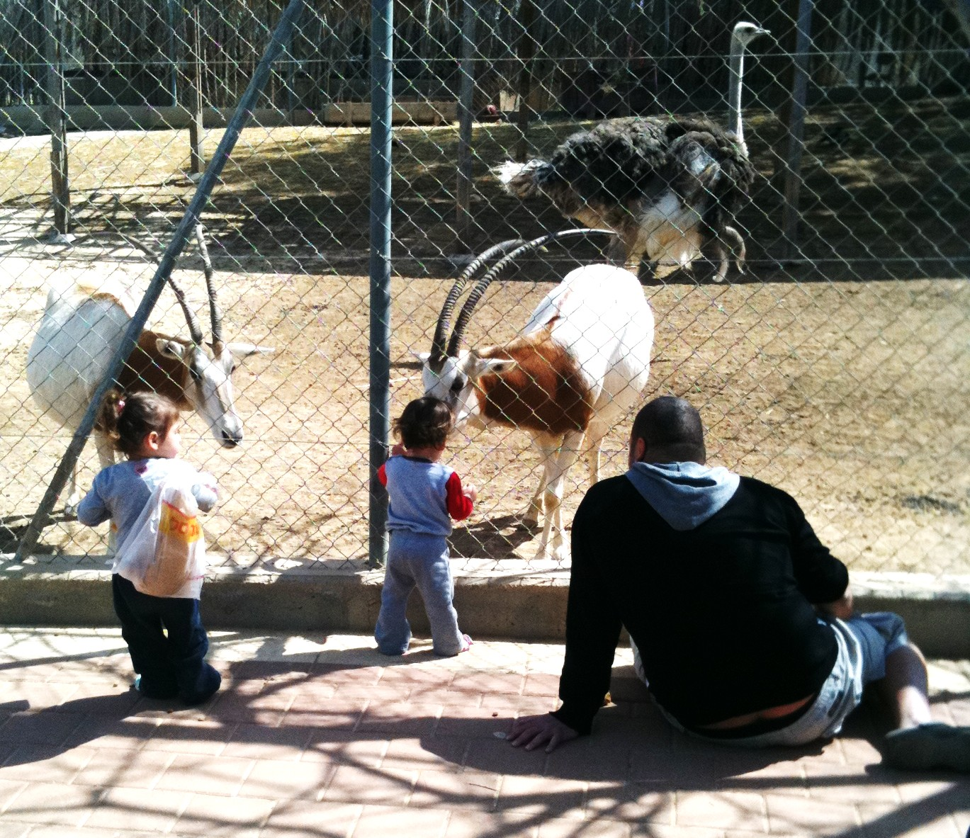 Negev Zoo visitors and animals